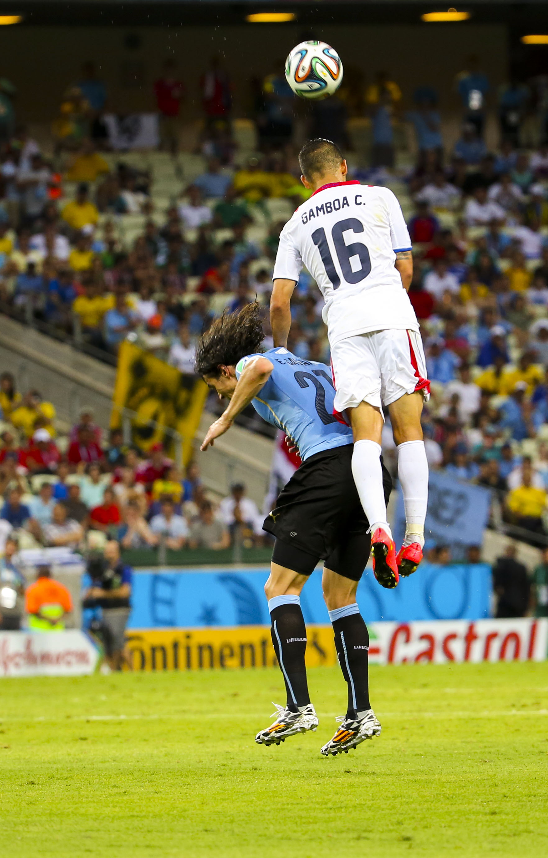 Uruguay and Costa Rica match at the FIFA World Cup 2014-06-14